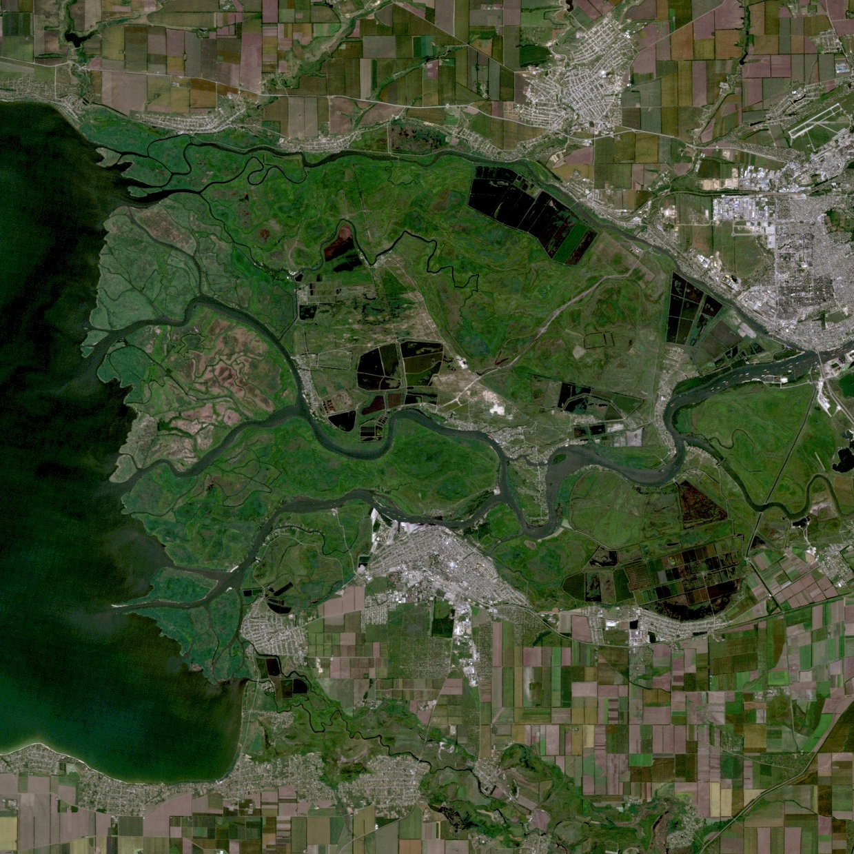 Delta of River Don